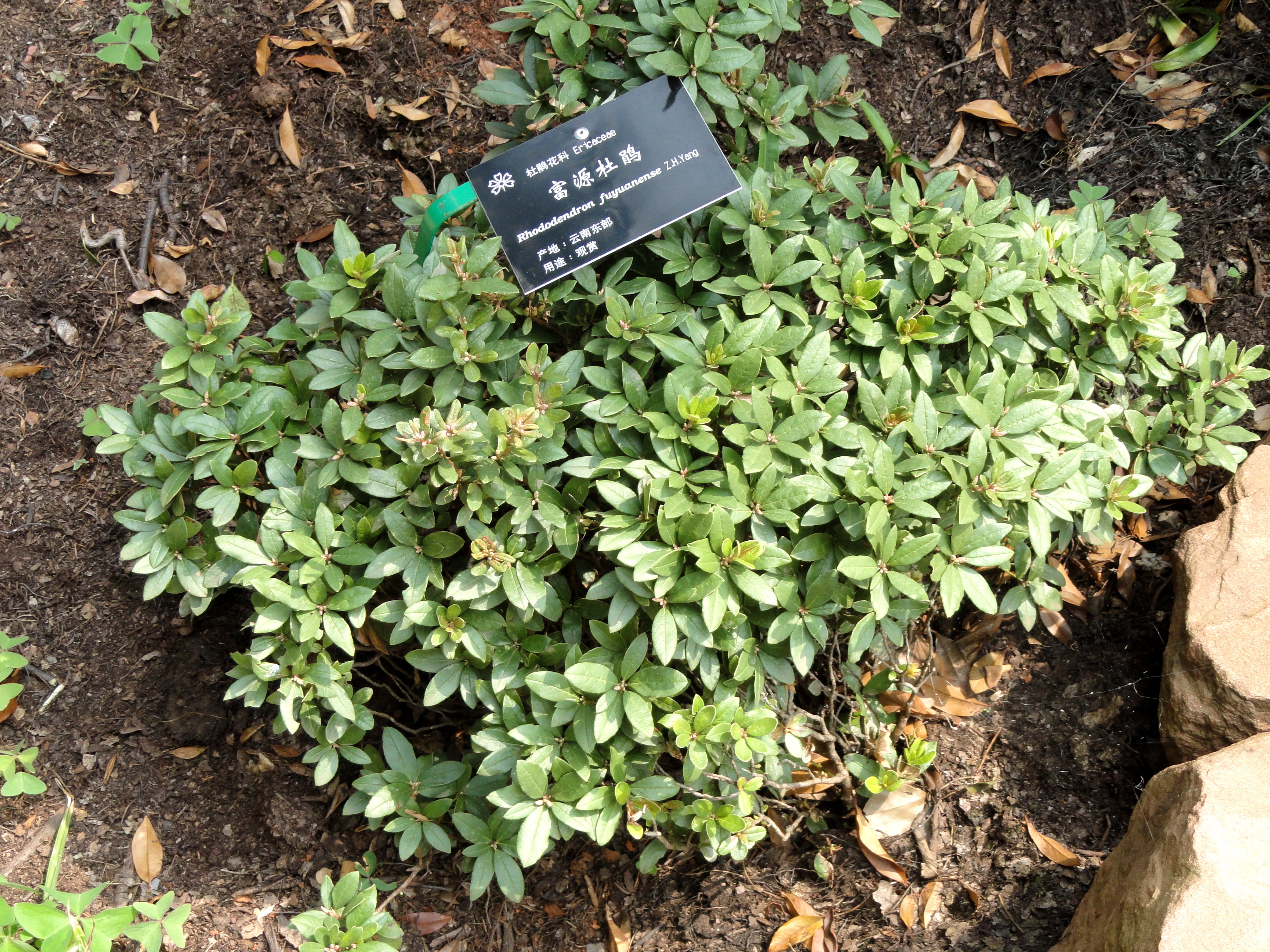 Plant specimen in the Kunming Botanical Garden, Kunming, Yunnan, China.